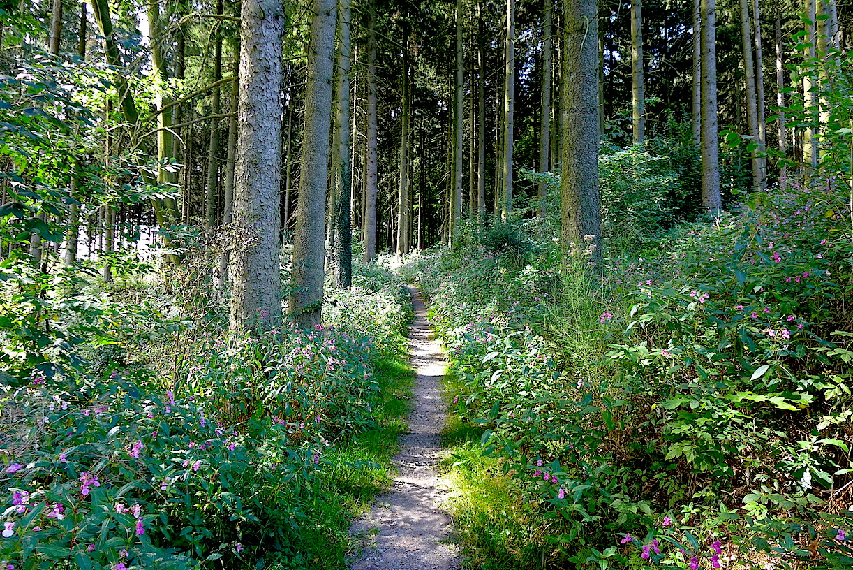 "Blade track" - the tourist marked route around the German city of Solingen (Northern Rhine-Westphalia). First stage: Gräfrath - Kohlfurth, 6,3 km.